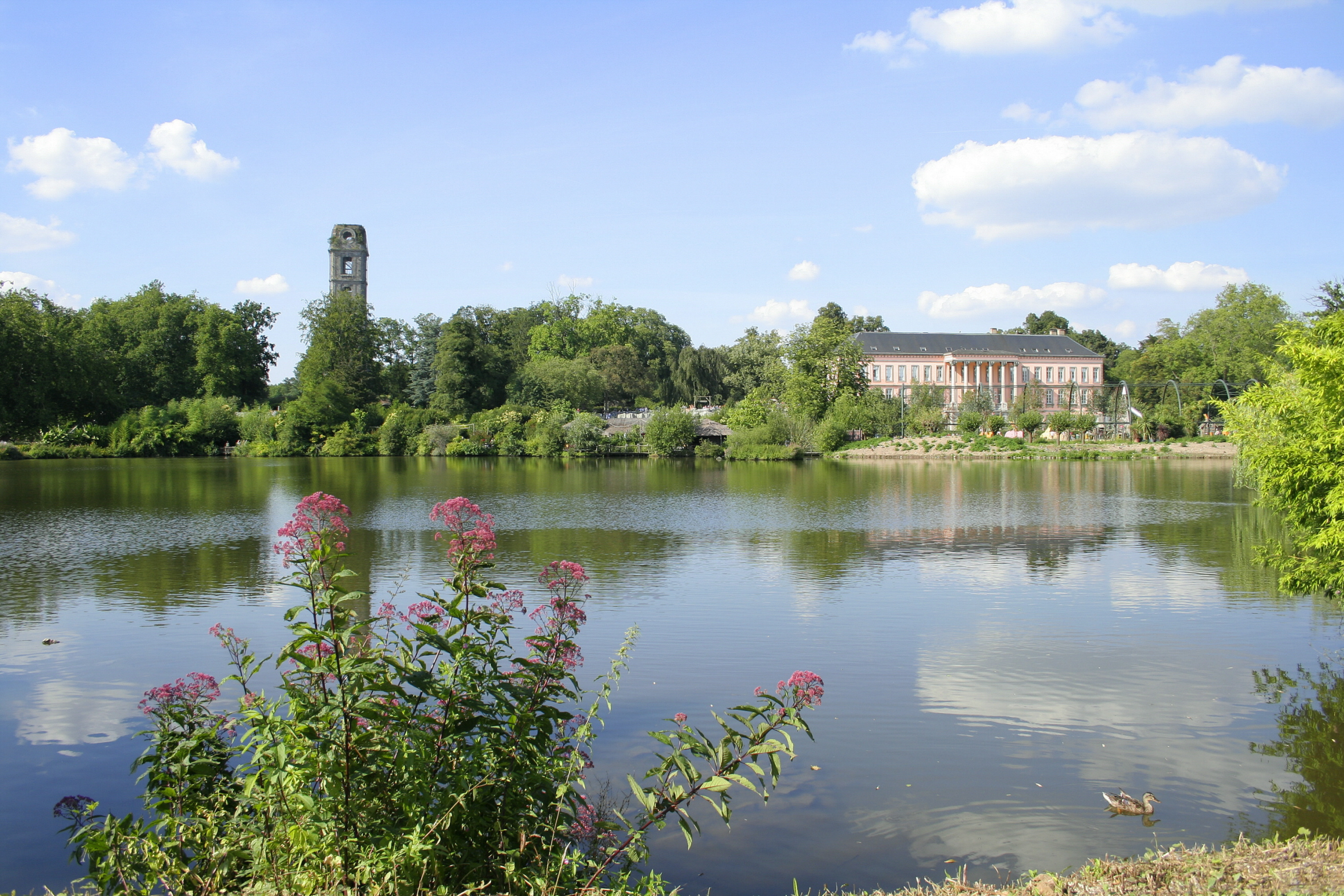 Cambron-Casteau (Belgium), the East pond, the tower (1774), the park of the former abbey and the former castle (XIXth century).